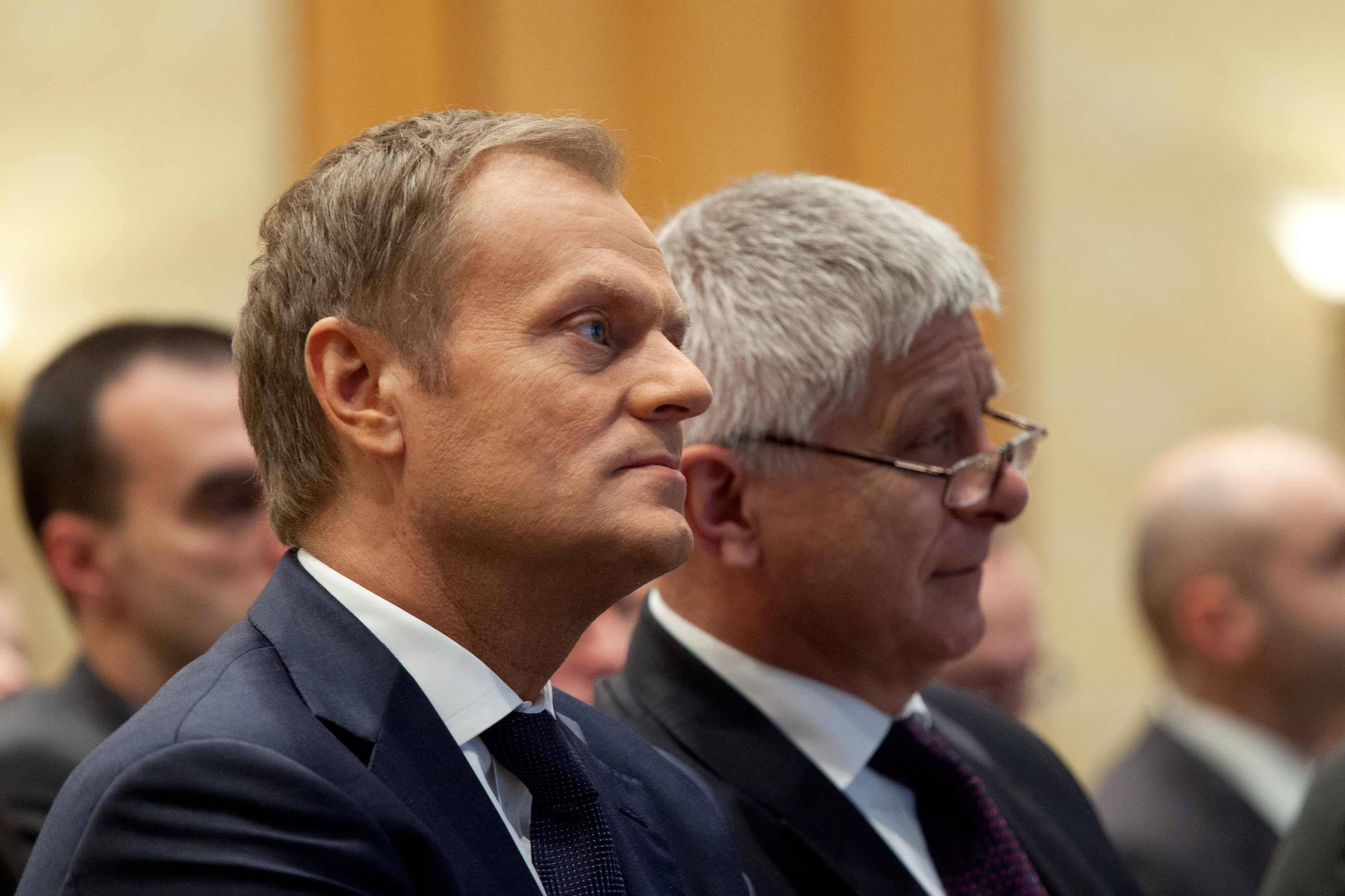 Donald Tusk and Marek Belka during 2nd edition of the Annual NBP Conference on The Future of the European Economy